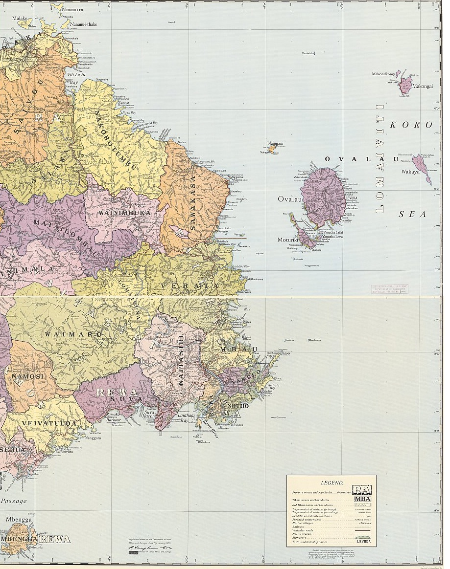 A Political Map of Eastern Viti Levu and adjacent islands, it is the right half of a map originally printed by the Lands Department of Fiji in 1953 entitled "Viti Levu and Adjacent Islands: Colony of Fiji"